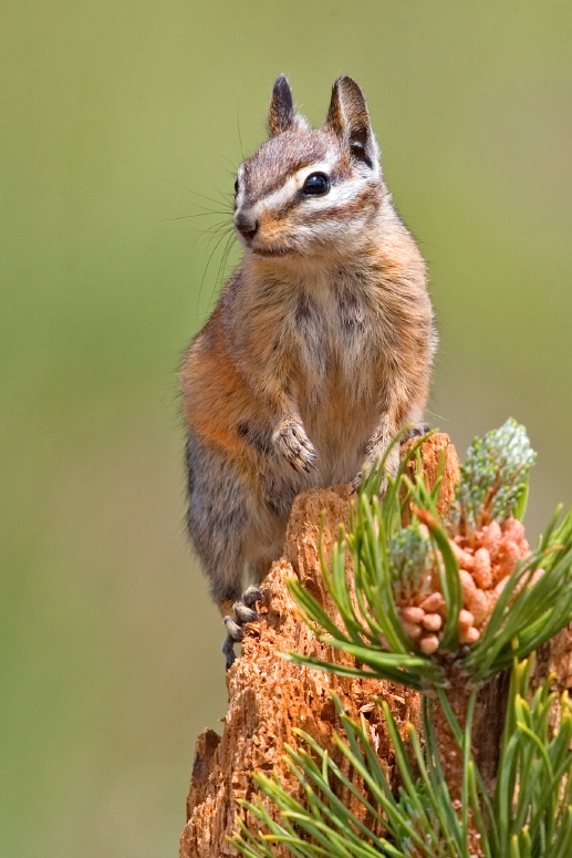 Least Chipmunk, Cabin Lake Viewing Blinds, Deschutes National Forest, Near Fort Rock, Oregon